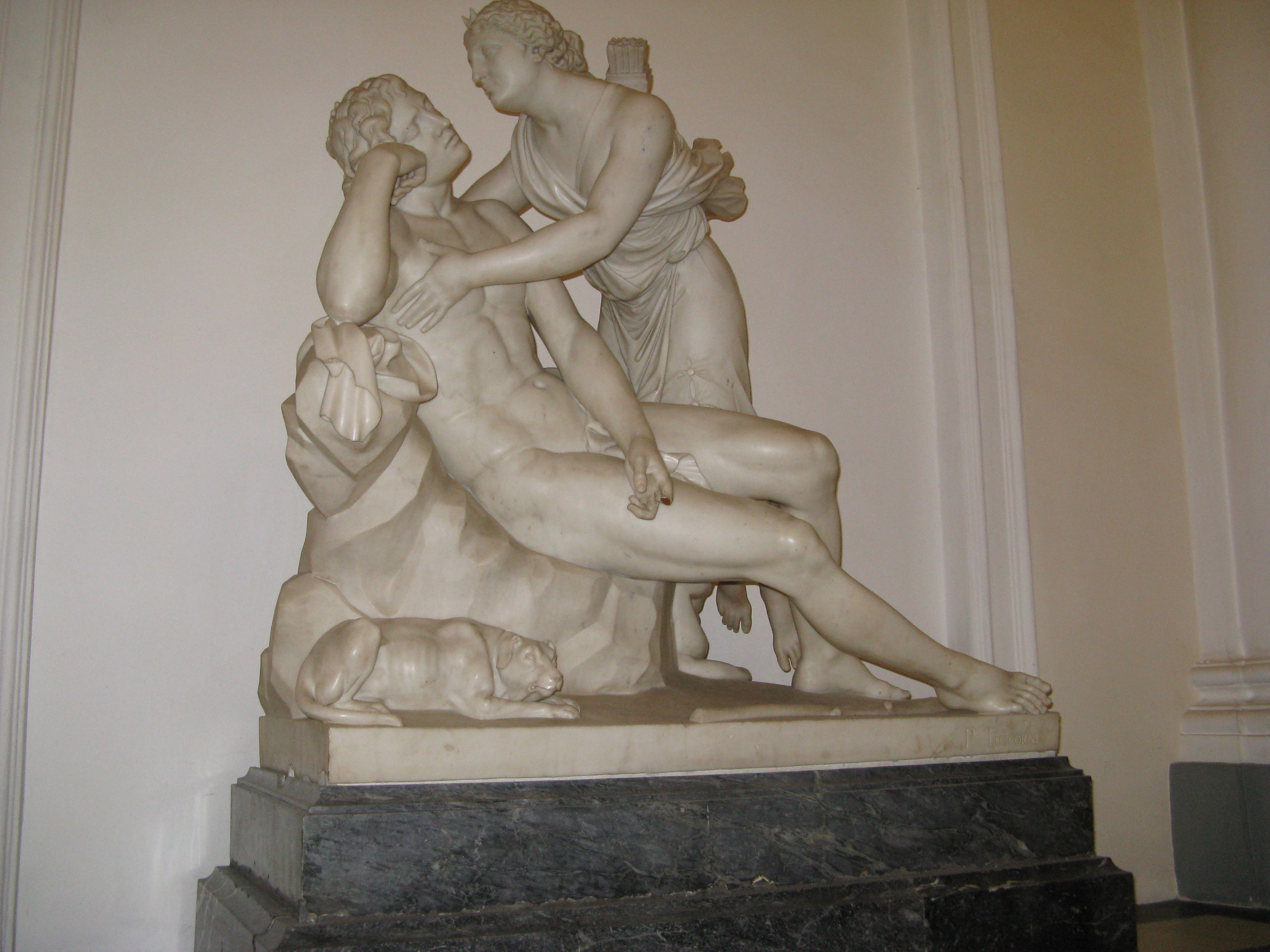 Selene and Endymion by Paolo Andrea Triscorni (1757-1833) at the Hermitage.